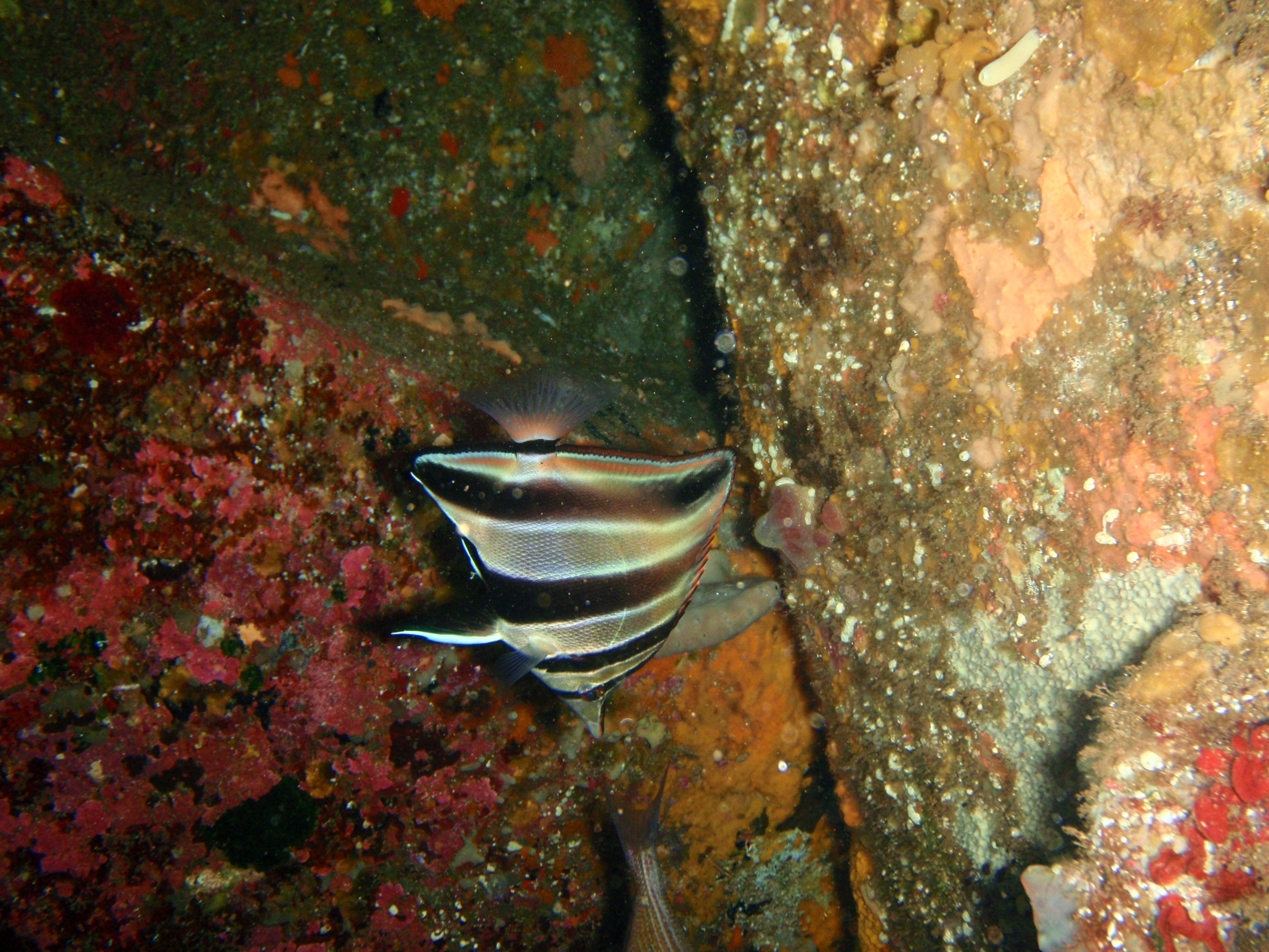 Western talma Chelmonops curiosus at the north of Pearson Island, South Australia